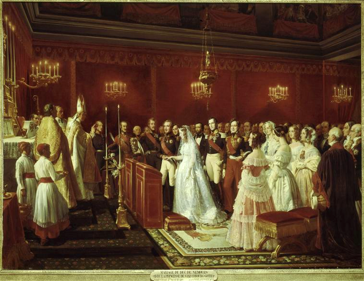 Marriage of the Duke of Nemours to Princess Victoria of Saxe-Coburg and Gotha at Saint Cloud.